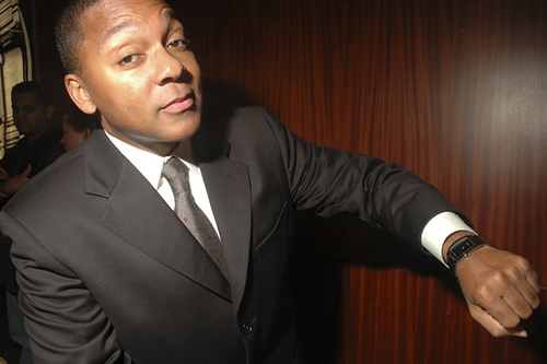 Wynton Marsalis at the Lincoln Center for the Performing Arts